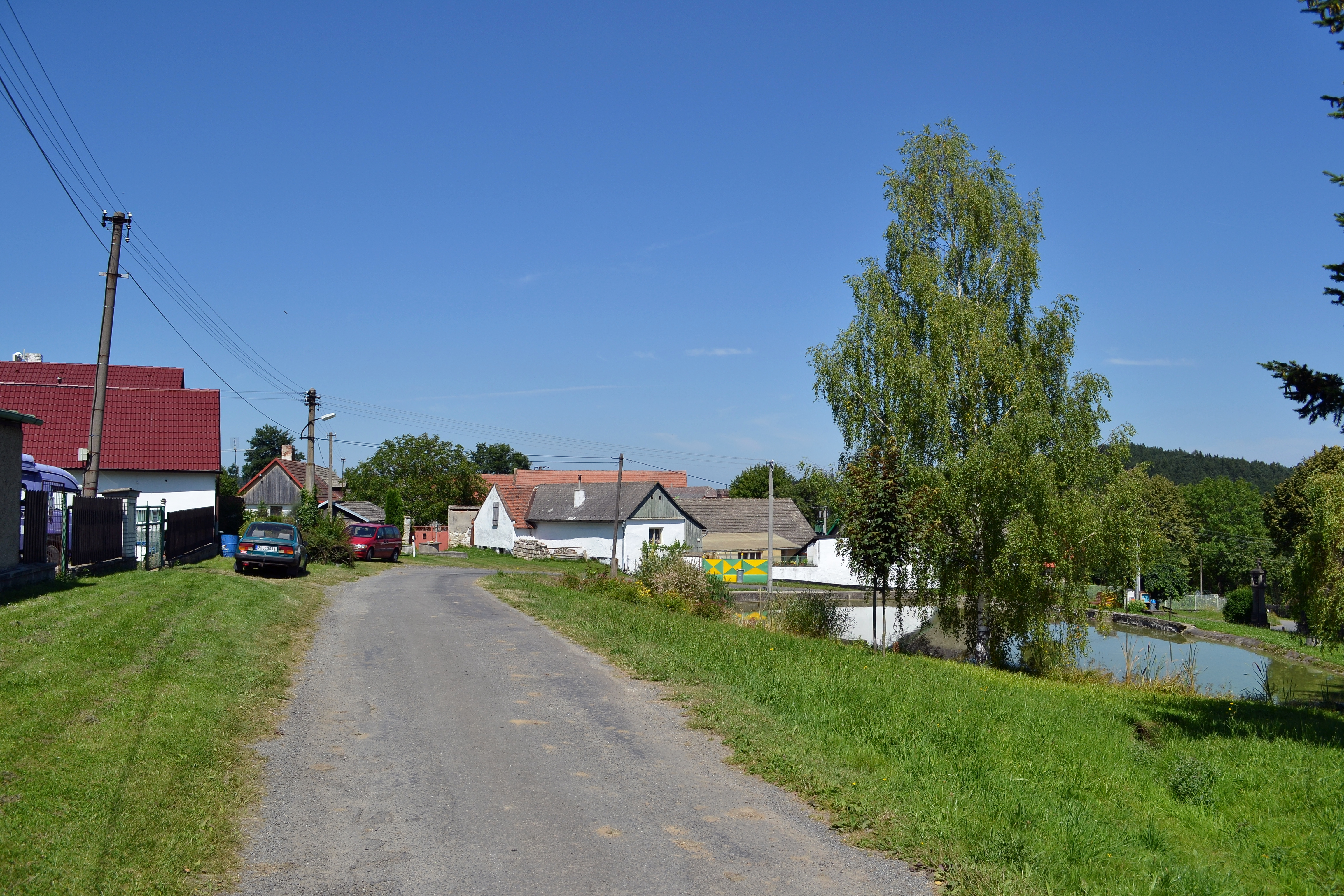 Vitín, part of the village of Počepice, Central Bohemian Region, Czech Republic.